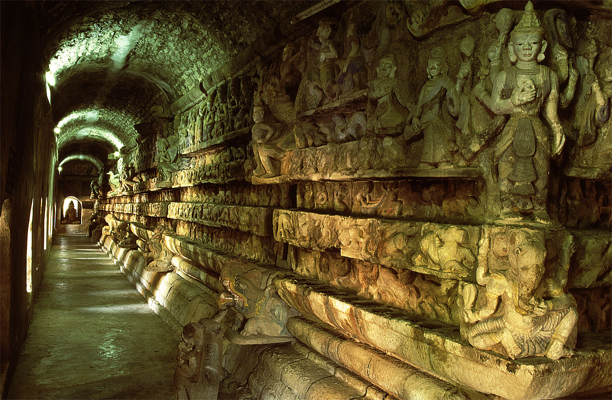 Inside the Shittaung Pagoda in Mrauk U - the old capital of Rakhine in Myanmar